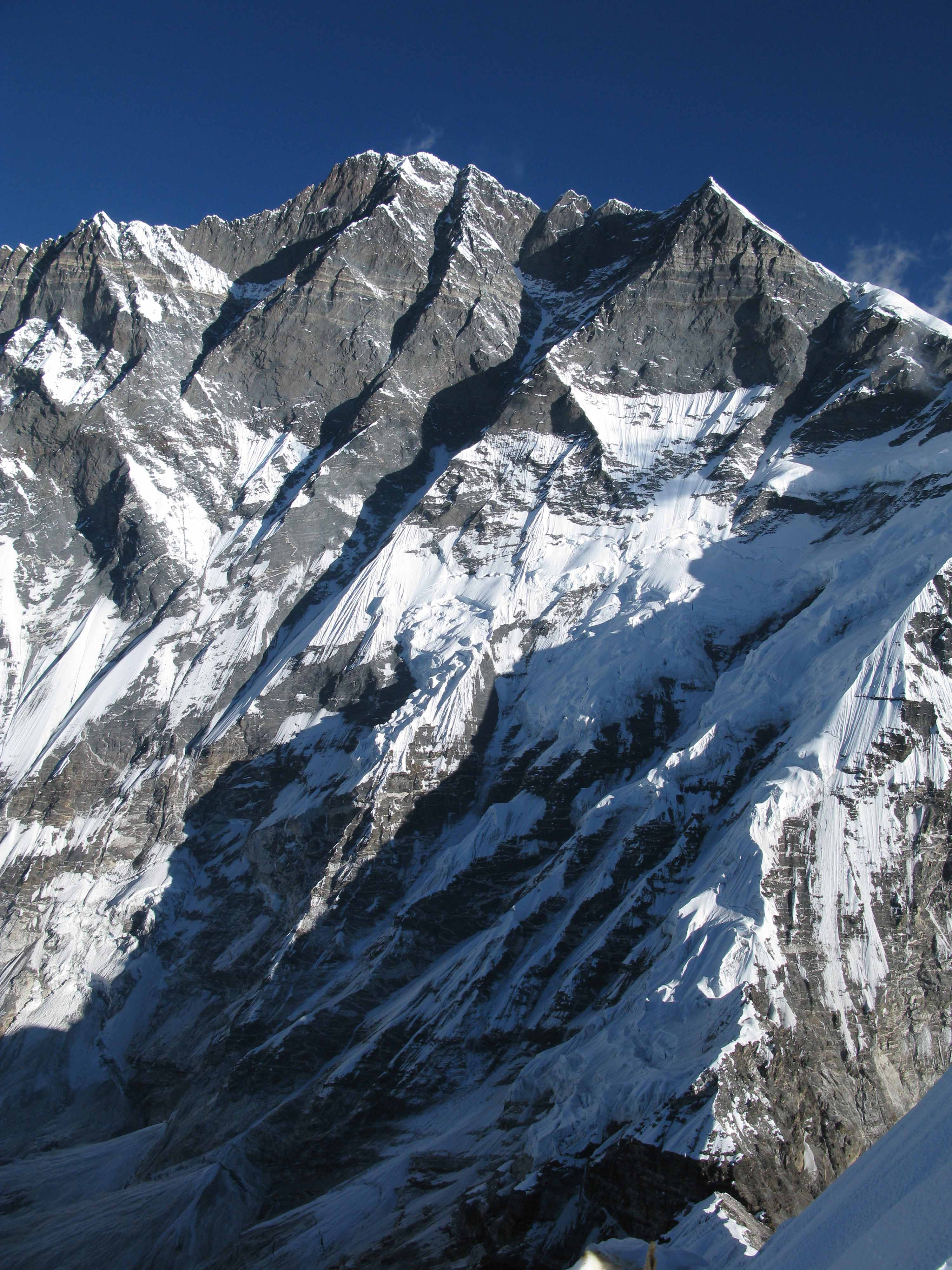 South face of Lhotse with Lhotse Main, Lhotse Middle and Lhotse Shar